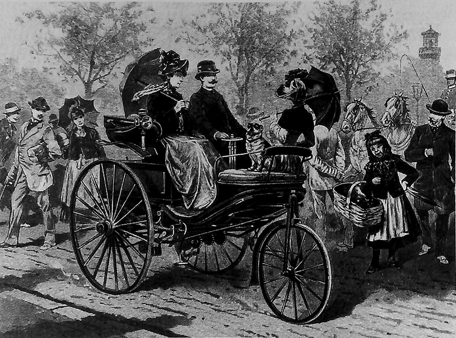 This xylograph is the first illustration of Benz's Patent-Motorwagen and was published 1888 in the Leipziger Illustrierten Zeitung.